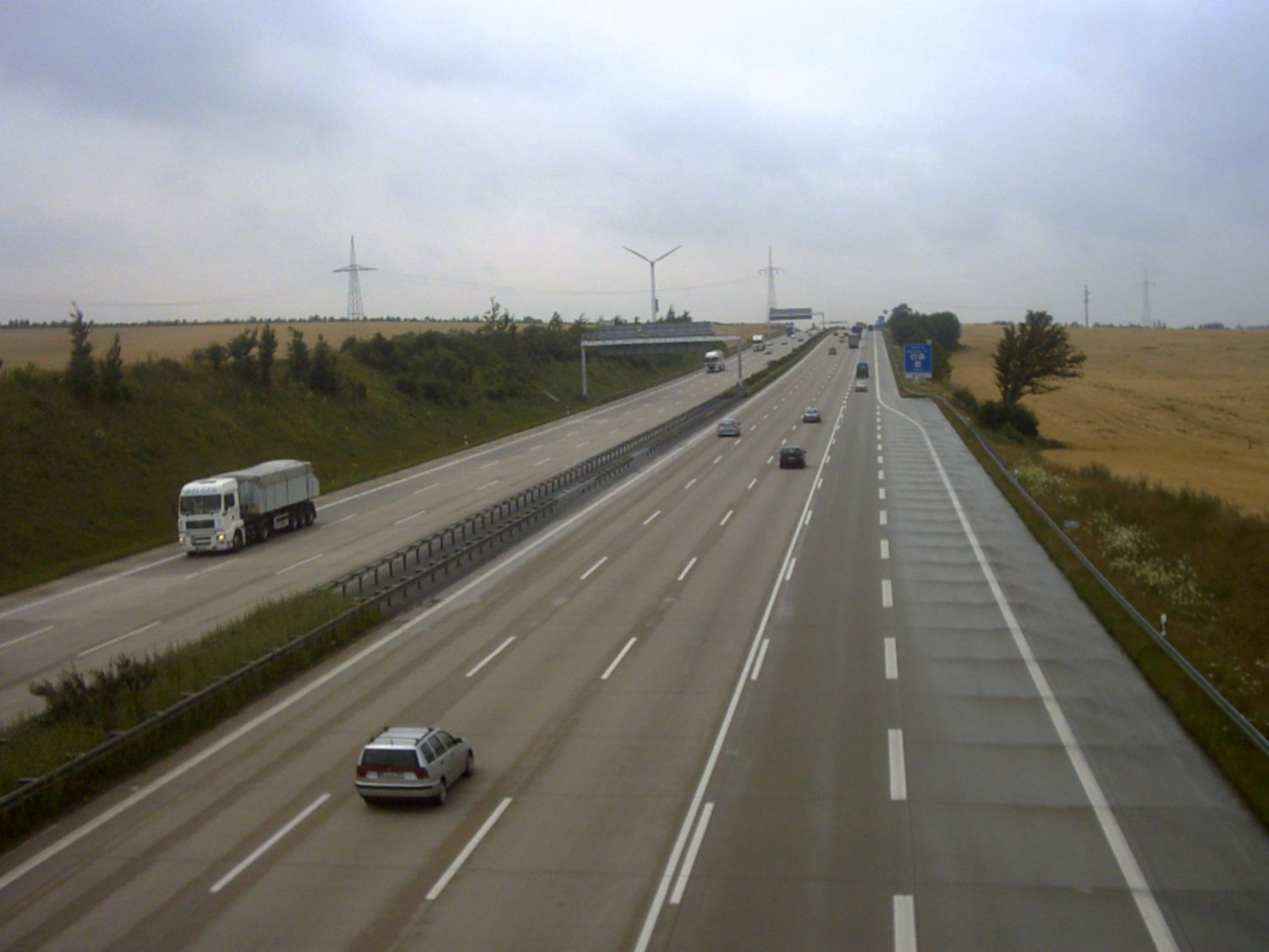 Thia picture shows the motorway A4 in Germany near the town Dresden. The picture is taken by me (Thomas Richter/user:THOMAS); 19th July 2005. Everybody may use it under GFDL.